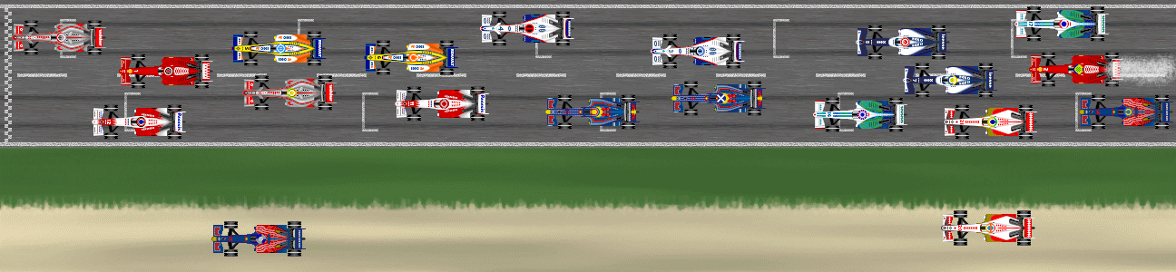 2008 F1 season Race result of 2008 Hungarian Grand Prix in Budapest